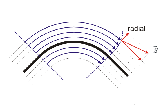 Losses caused by fiber bending. The poynting vector gets an radial component at the outer side of the bend part, due to the limited propagation velocity in the fiber material.